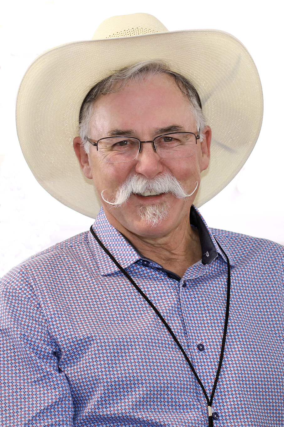 Author Reavis Z. Wortham at the 2018 Texas Book Festival in Austin, Texas, United States.